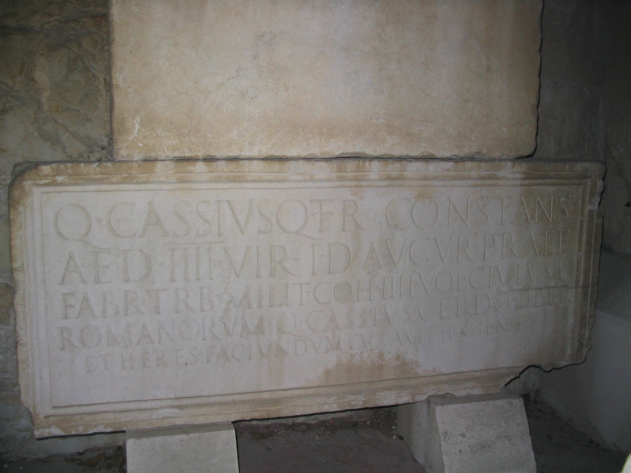 Ancient roman inscription from Salona, museum of Split